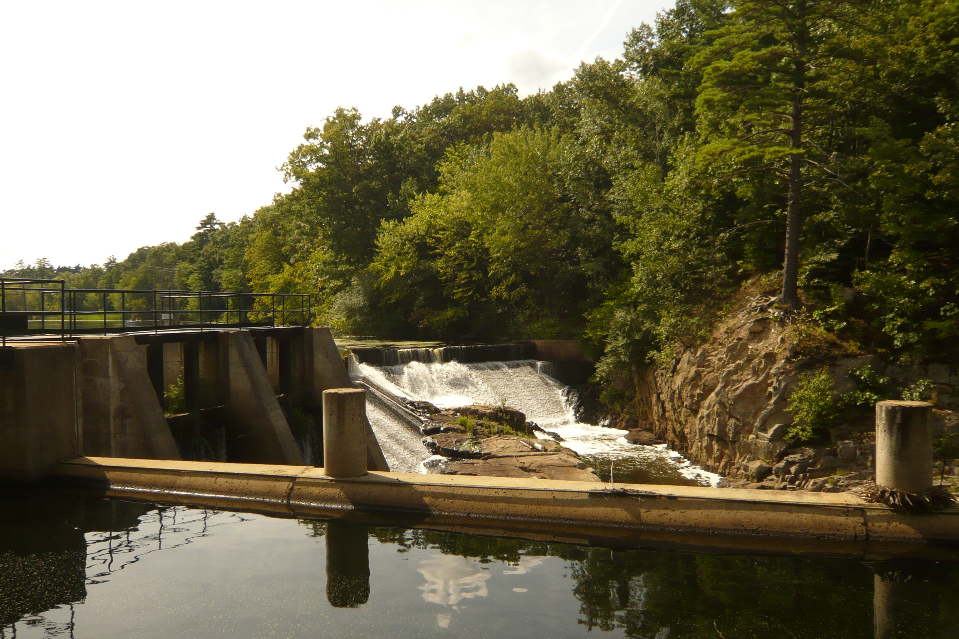 Mine Falls Dam at Mine Falls Park, Nashua Manufacturing Company Historic District